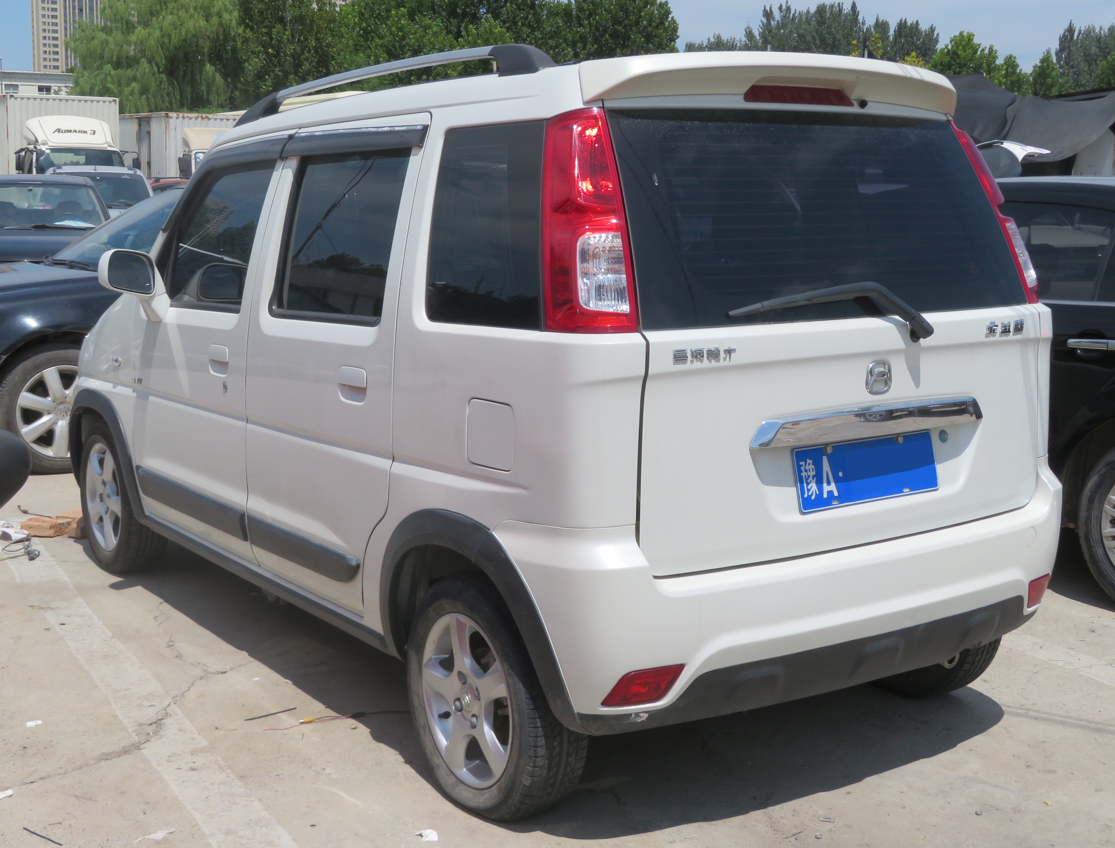 Photographed in Zhengzhou, Henan province, China